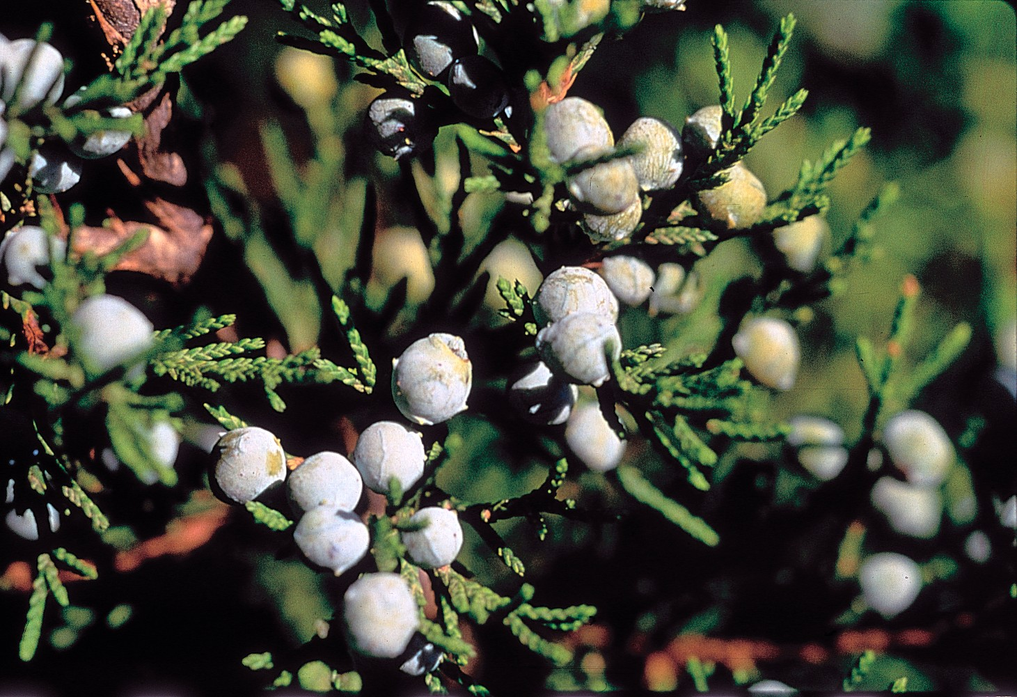 Eastern Redcedar. Berries.